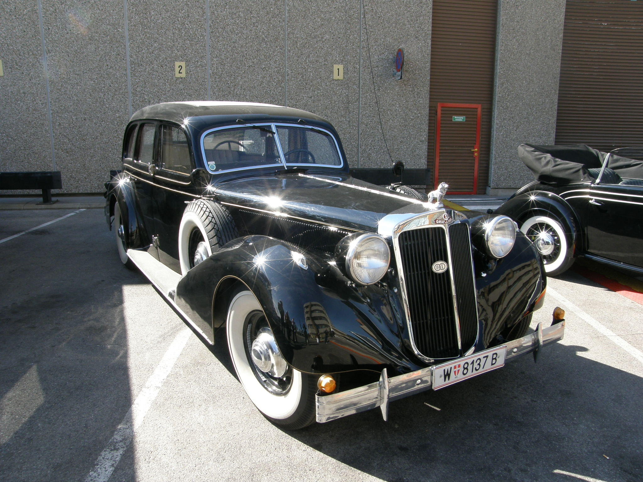 The Gräf & Stift C12 at the 100-year-anniversary in Vienna